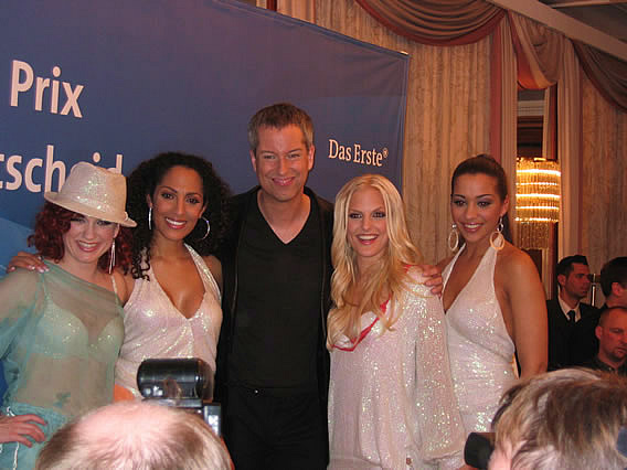 Press conference after the German national final of the Eurovision Song Contest